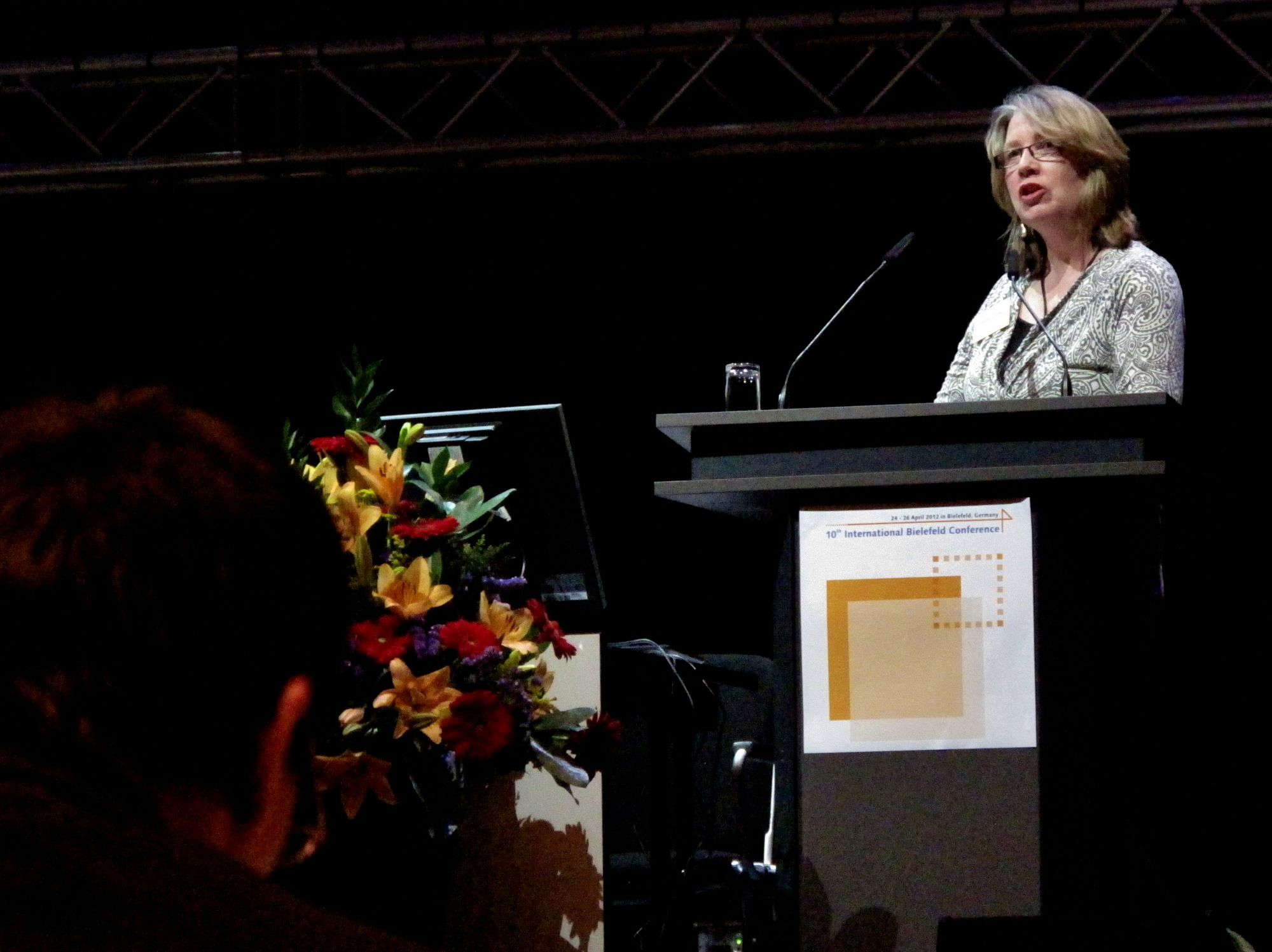 Anne Trefethen, Oxford Internet Institute (OII), speaking at 10th International Library Conference, Bielefeld, Germany